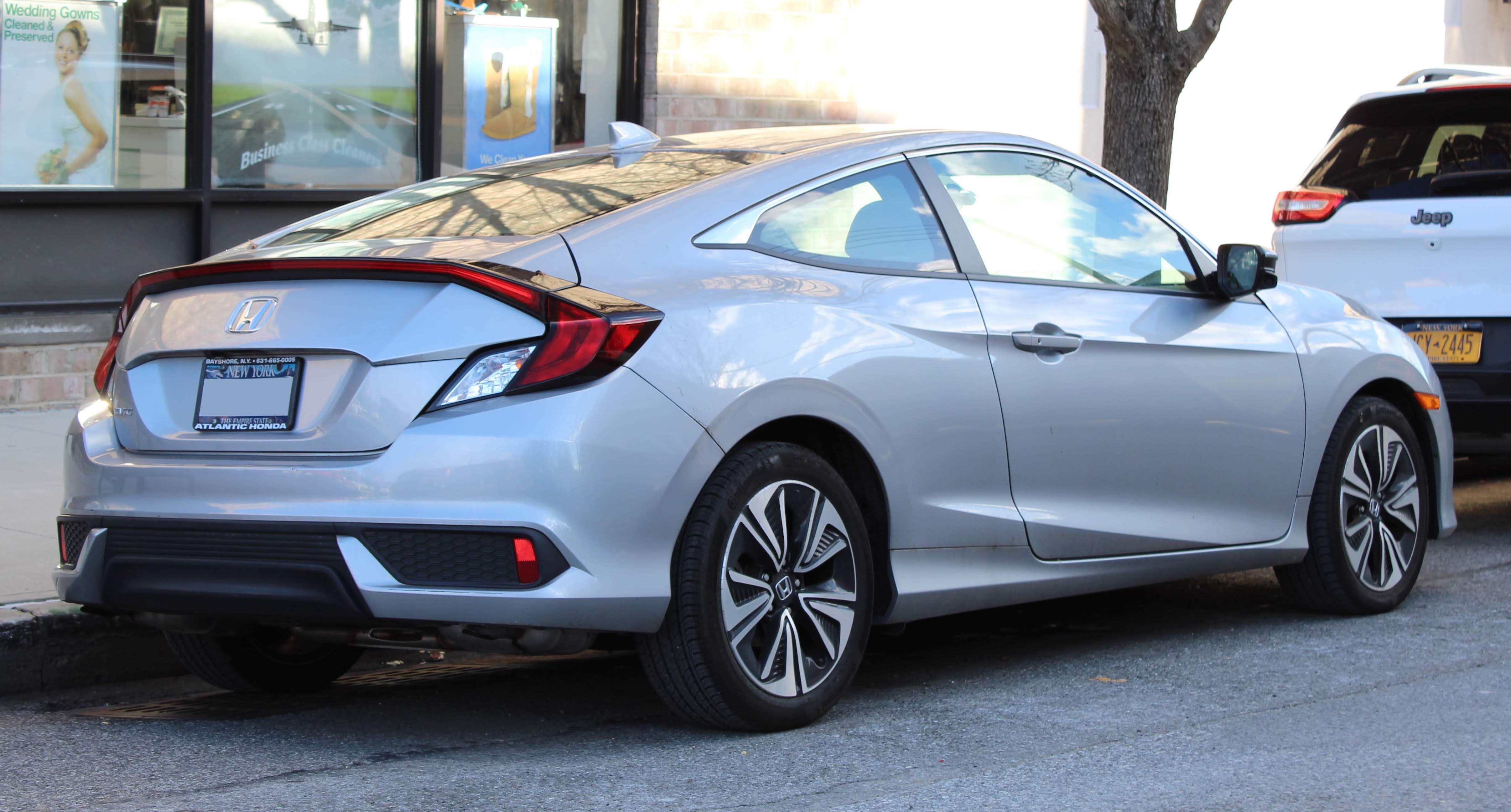 photographed in Queens, New York